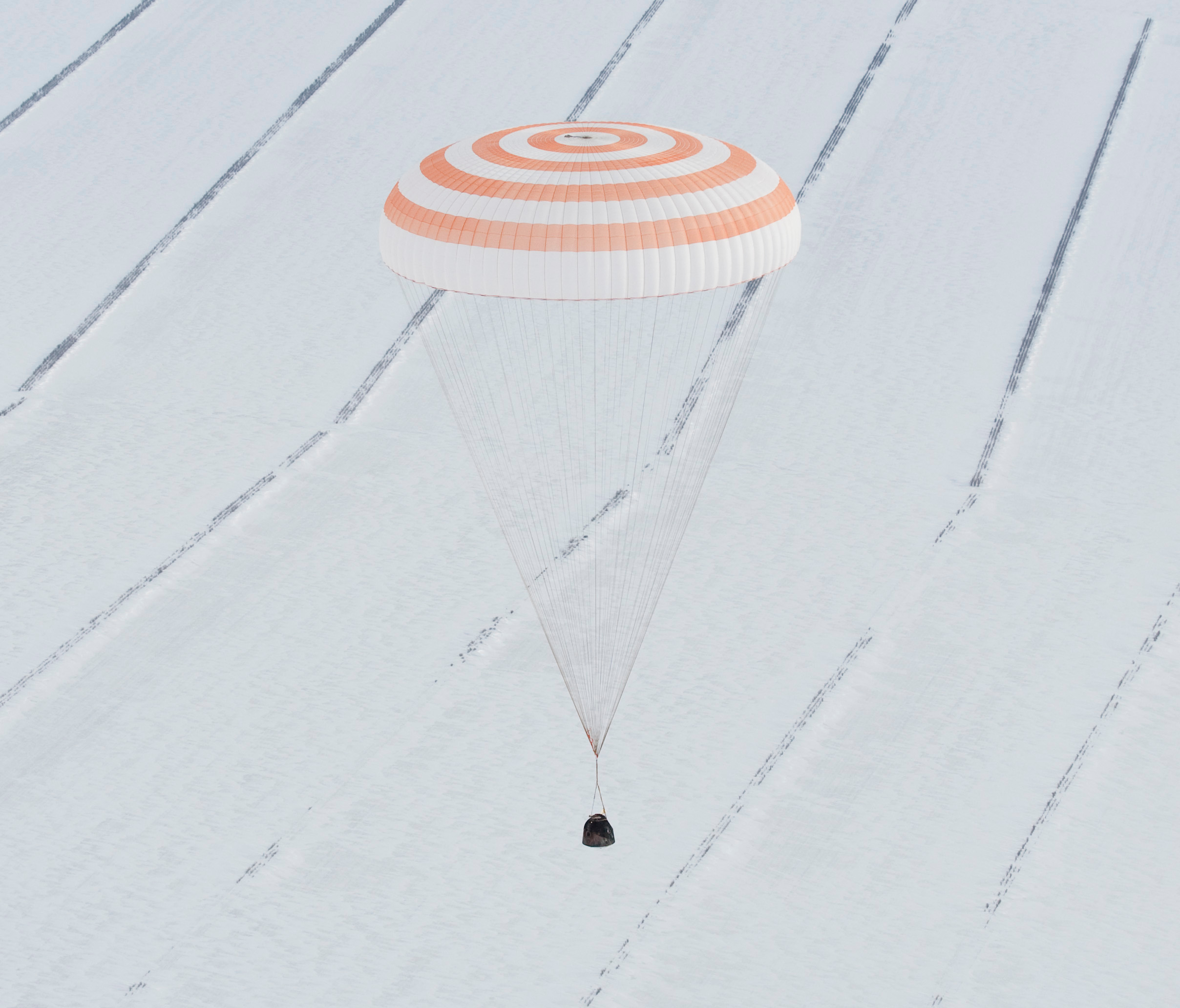 The Soyuz TMA-16 spacecraft is seen as it lands with Expedition 22 Commander Jeff Williams and Flight Engineer Maxim Suraev near the town of Arkalyk, Kazakhstan on Thursday, March 18, 2010. NASA Astronaut Jeff Williams and Russian Cosmonaut Maxim Suraev are returning from six months onboard the International Space Station where they served as members of the Expedition 21 and 22 crews.